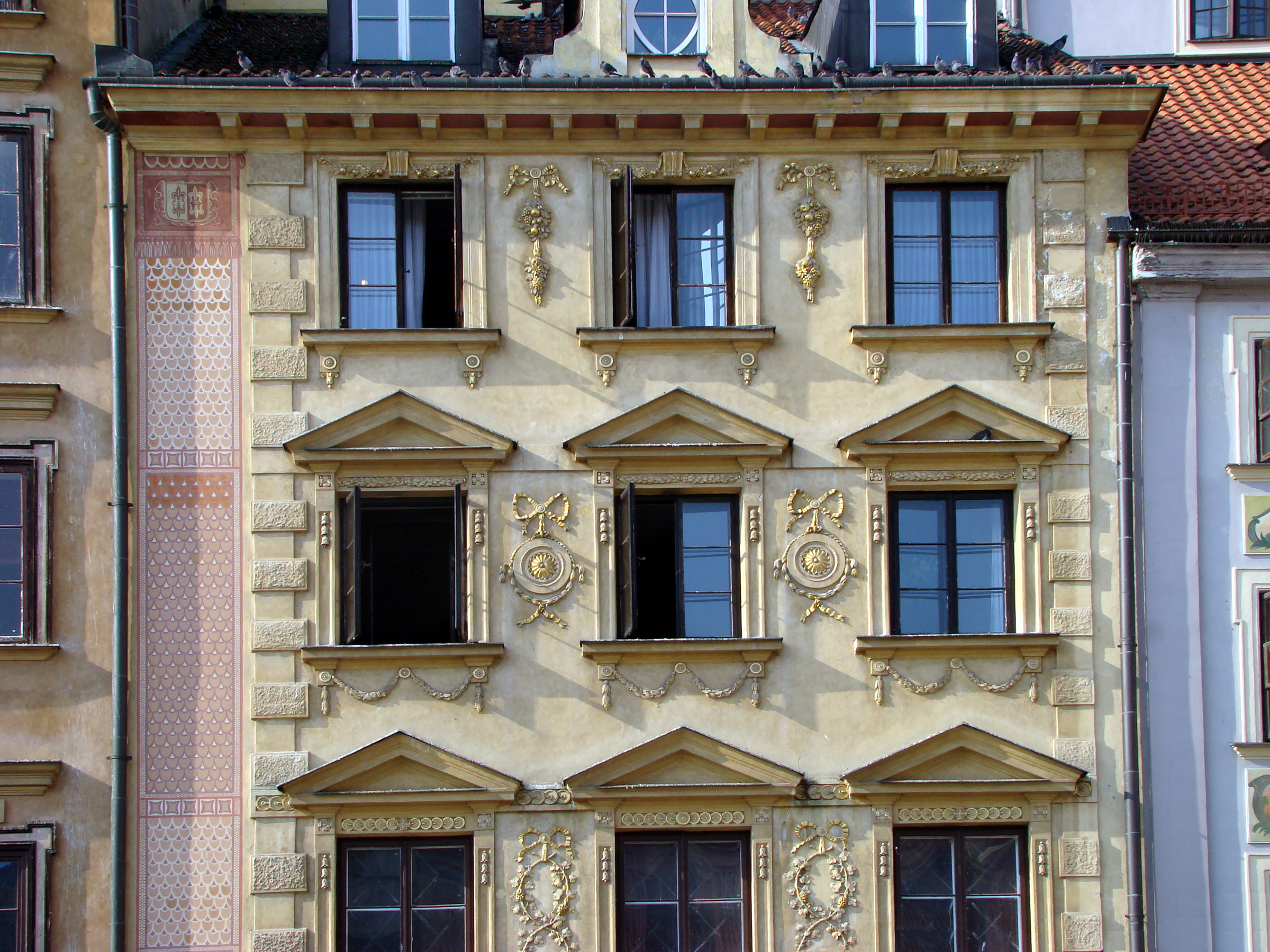 Fugger house, Old Town in Warsaw